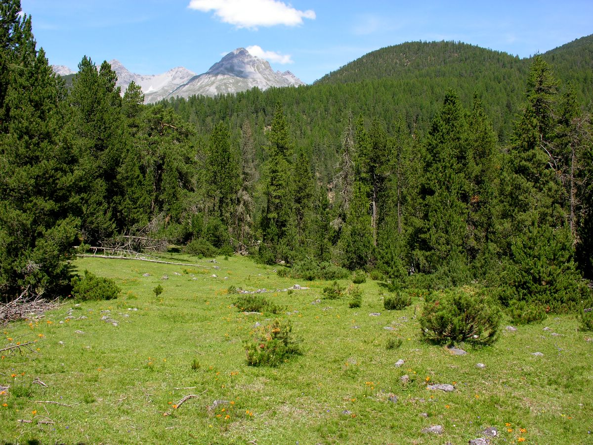 Swiss National Park